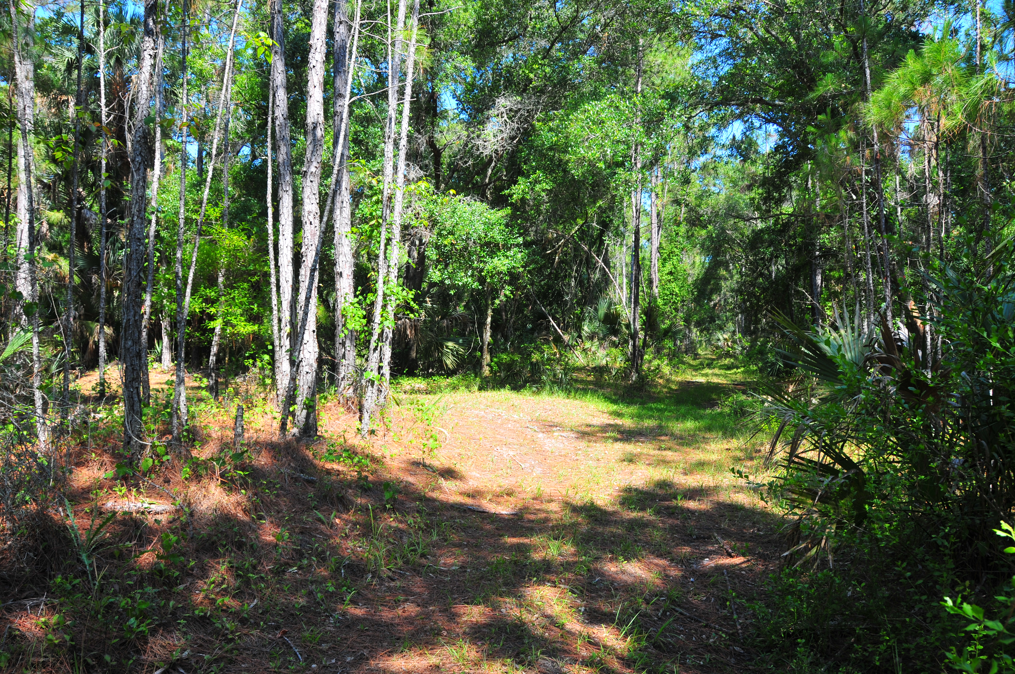 The site of the crossing of the Enterprise and Kissimmee Valley branches at Maytown, FL. This is looking north along the Enterprise branch. Coming in from the left is the KV branch up from eastern central Florida. The KV running east towards Edgewater is not viewable here but can be followed as you get back on the east side of I-95.